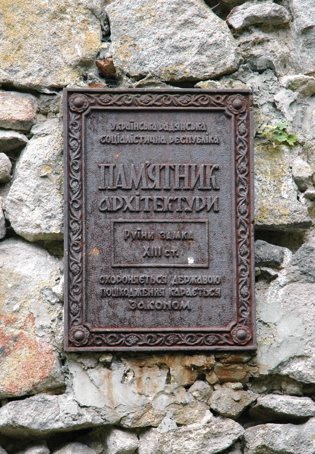 Ruins of Serednie castle (Serednie, Transcarpathian region, Ukraine)